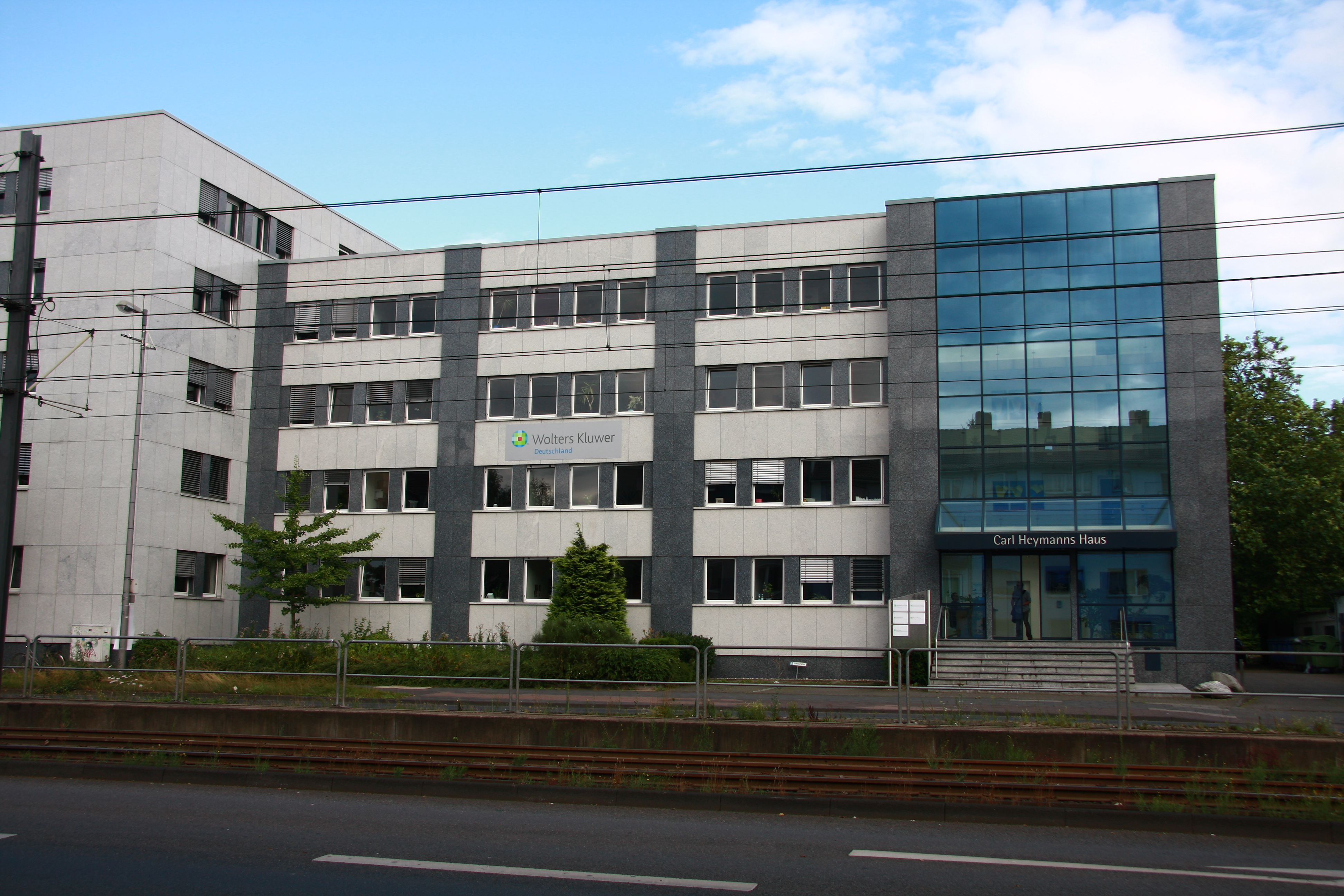 German Headquaters of Wolters Kluwer Deutschland in Cologne